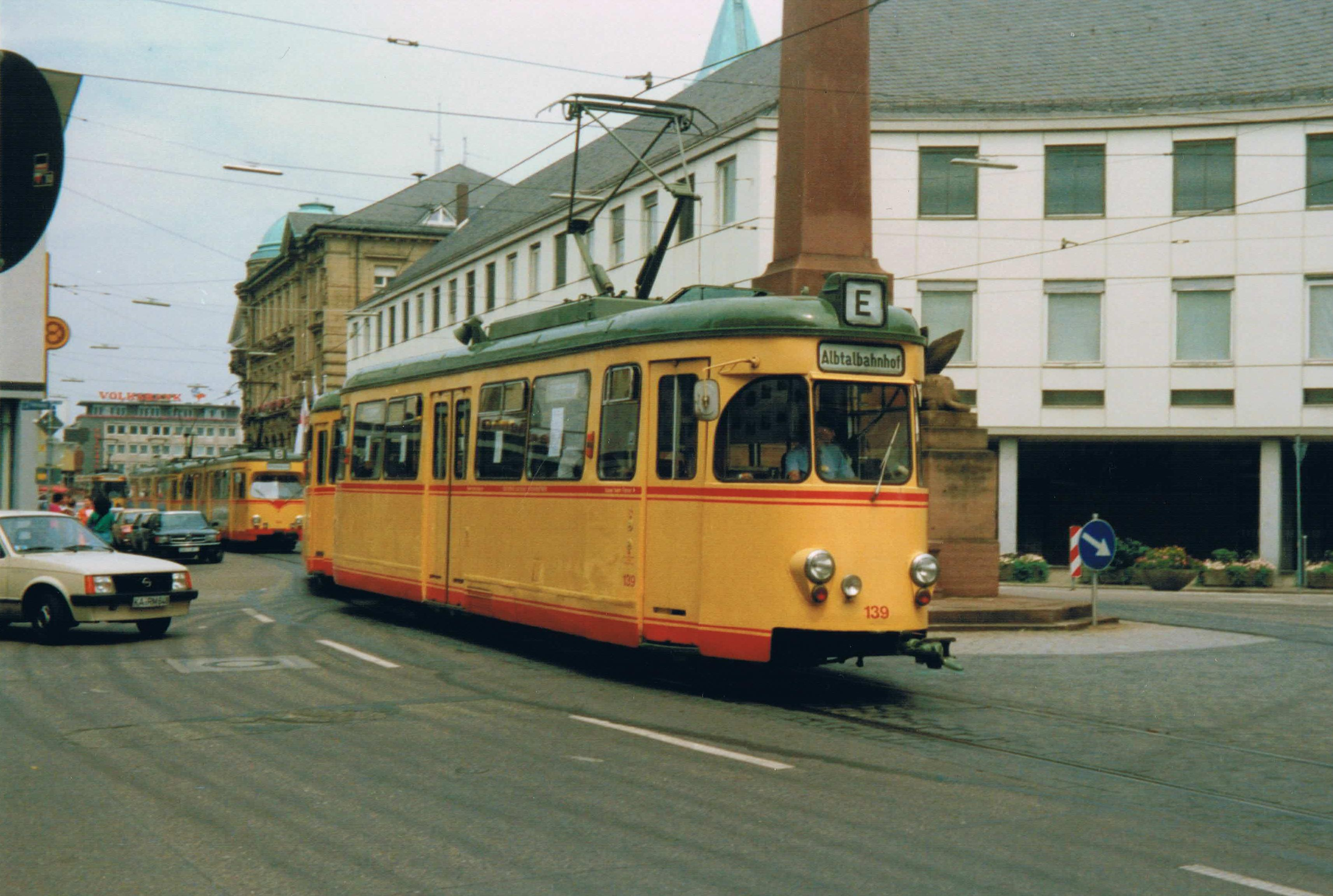 Tramcar 139+439 (historical train) in Karlsruhe